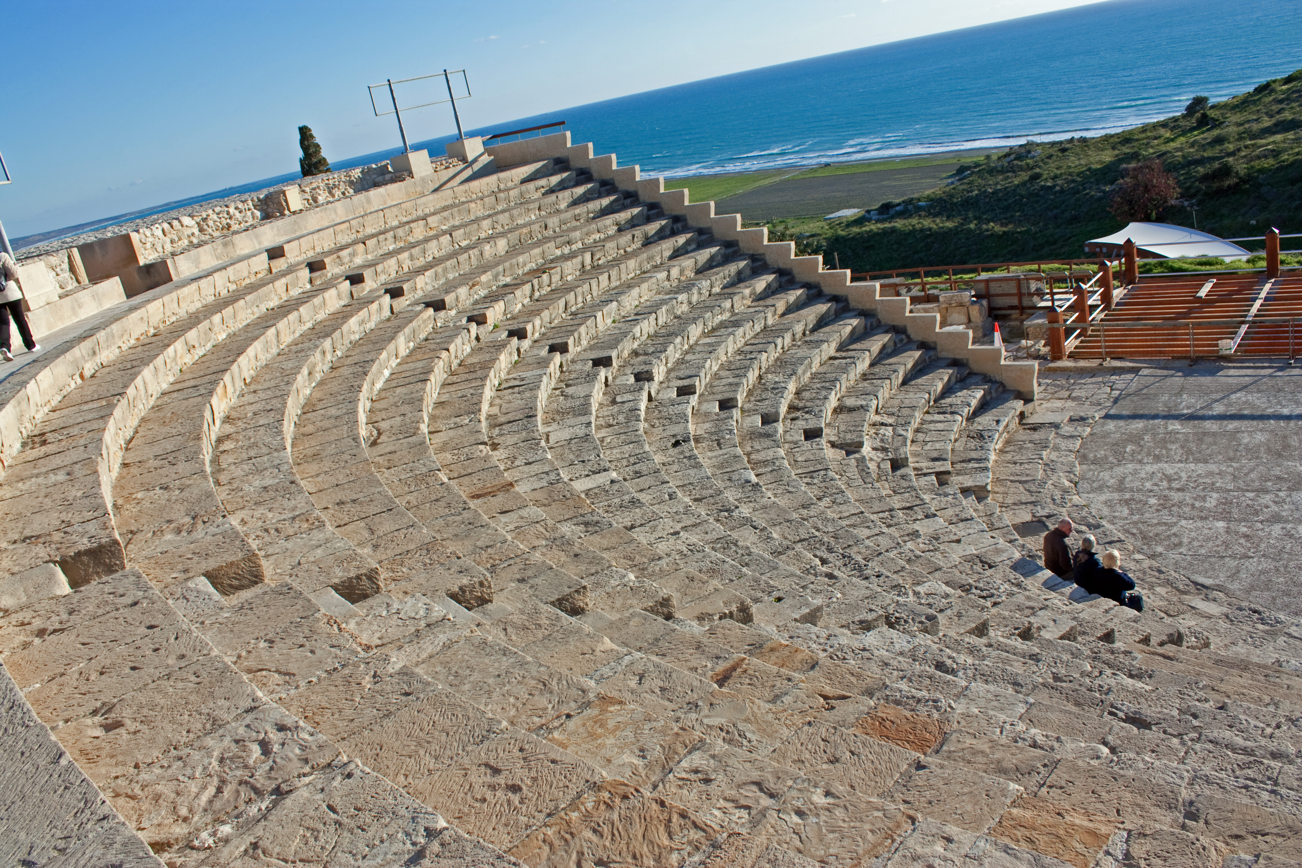 Southeast side of the Ancient Roman theatre in Kourion, Cyprus.